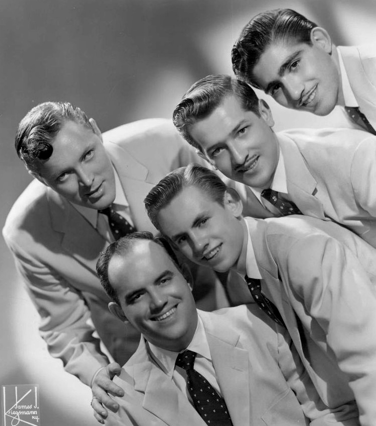 Publicity photo of Bill Haley and his Comets.